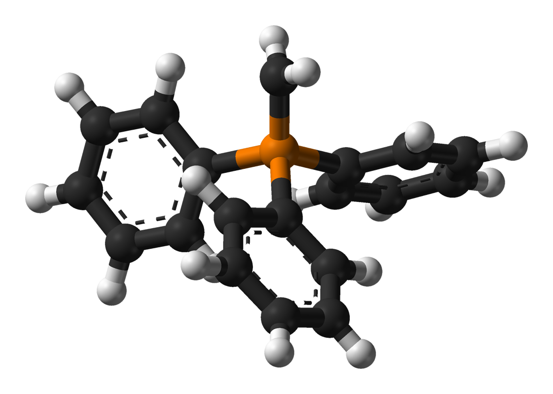 Ball-and-stick model of the methylenetriphenylphosphorane molecule, Ph3P=CH2, as found in the crystal structure. X-ray diffraction data from New J. Chem. (1989) 13, 341-352. Model constructed in CrystalMaker 8.1. Image generated in Accelrys DS Visualizer.